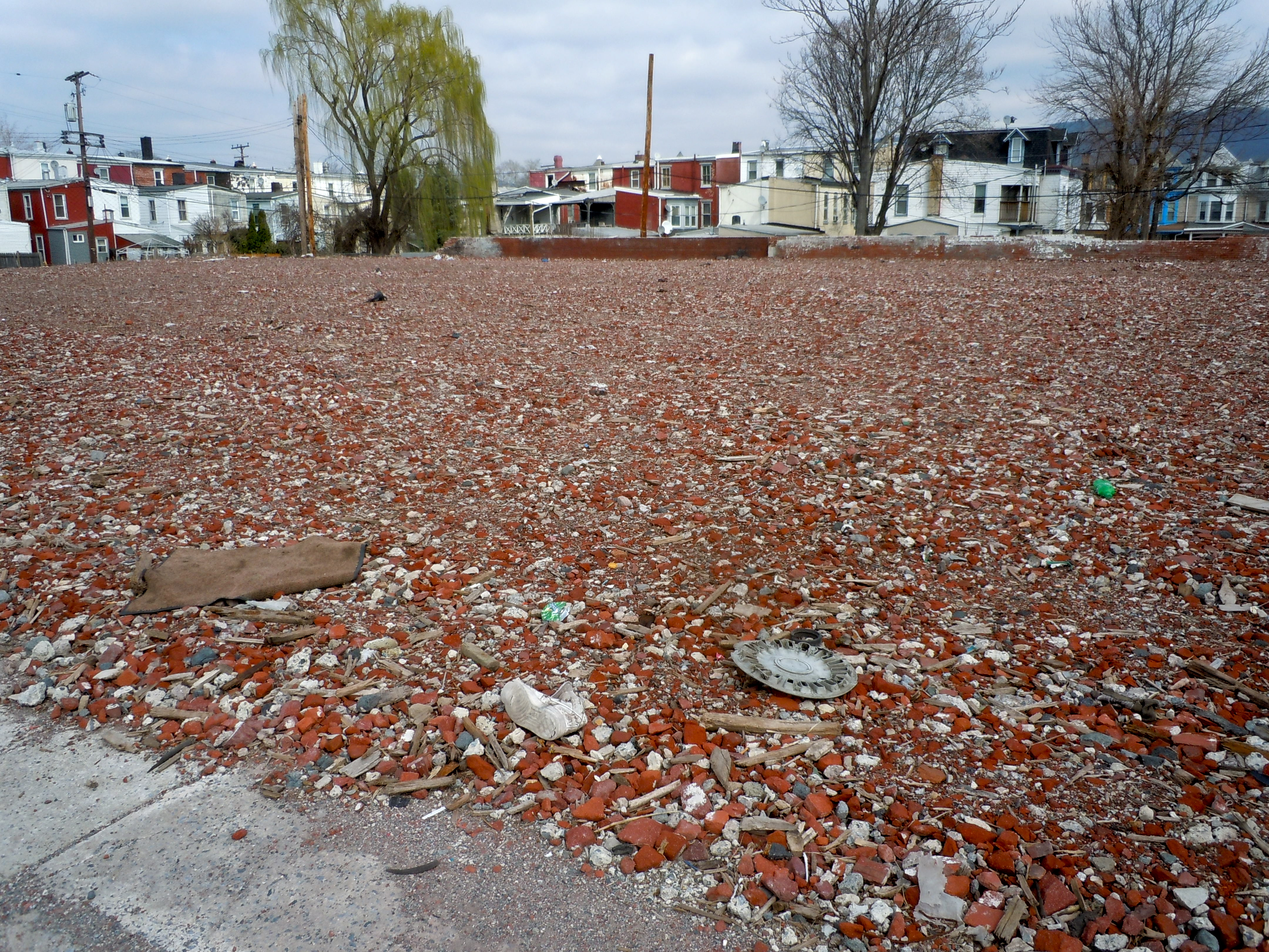 Former Meinig Glove Factory-E. Richard Meinig Co. on the NRHP since August 30, 1985 . Located at 621–641 McKnight Street, Berks County, Pennsylvania, City of Reading. Obviously been torn down (guess with 2 years of photo) Back walls up to about 3 feet tall still standing. The lot was slightly sloped down toward the back, but the area is now level to the old walls in back.